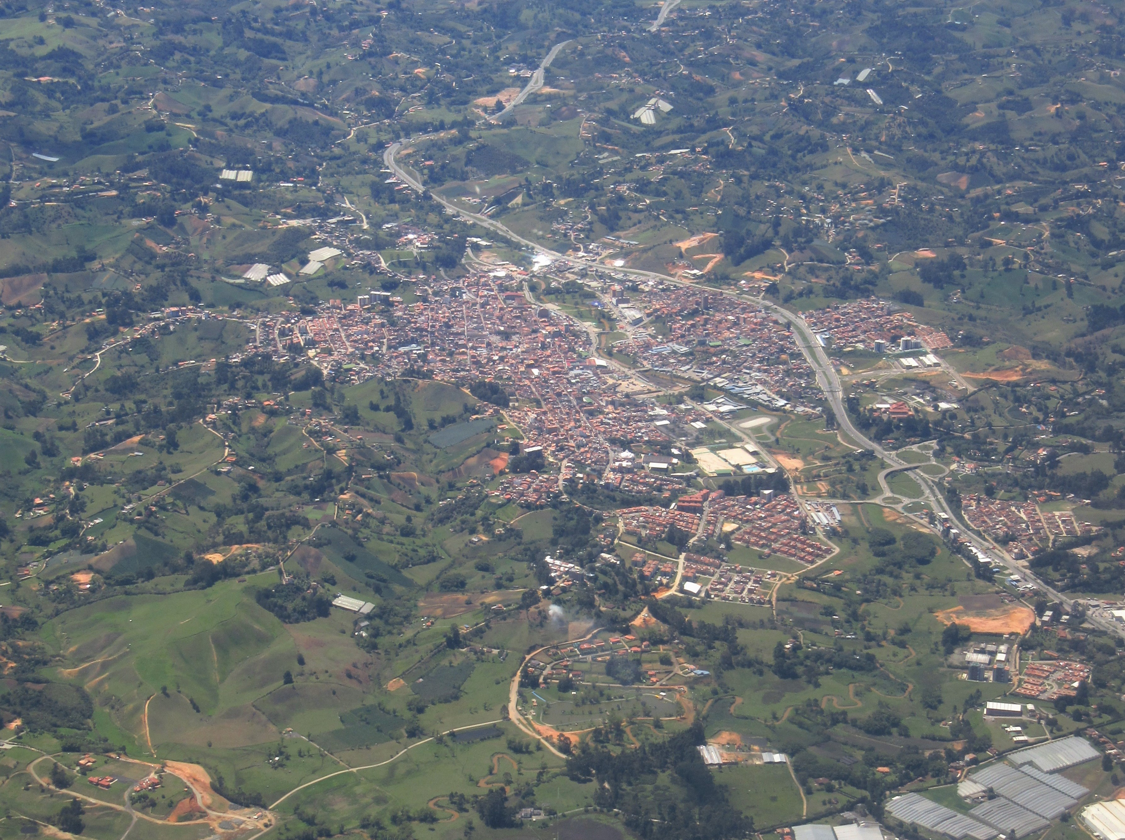 MArinilla